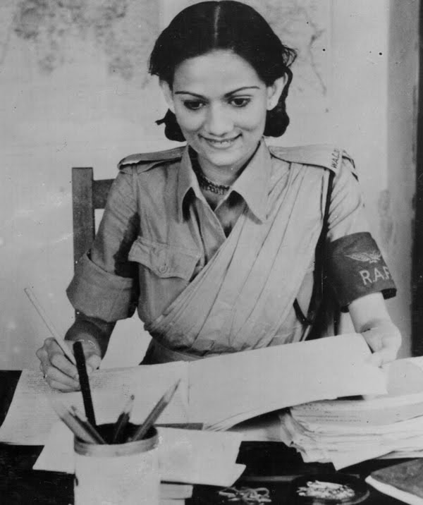 Private Begum Pasha Shah of the WAC (1) on duty in the Orderly Room of an RAF station in India, August 1943